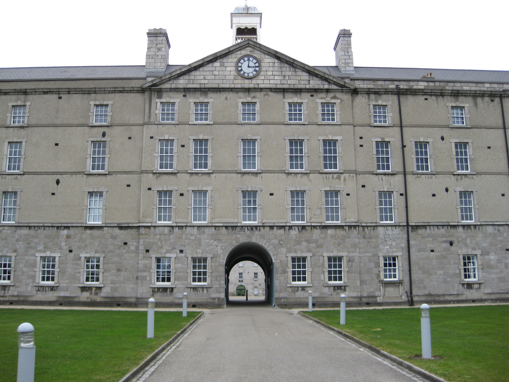 Front entrance to Collins Barracks, now the National Museum of Ireland